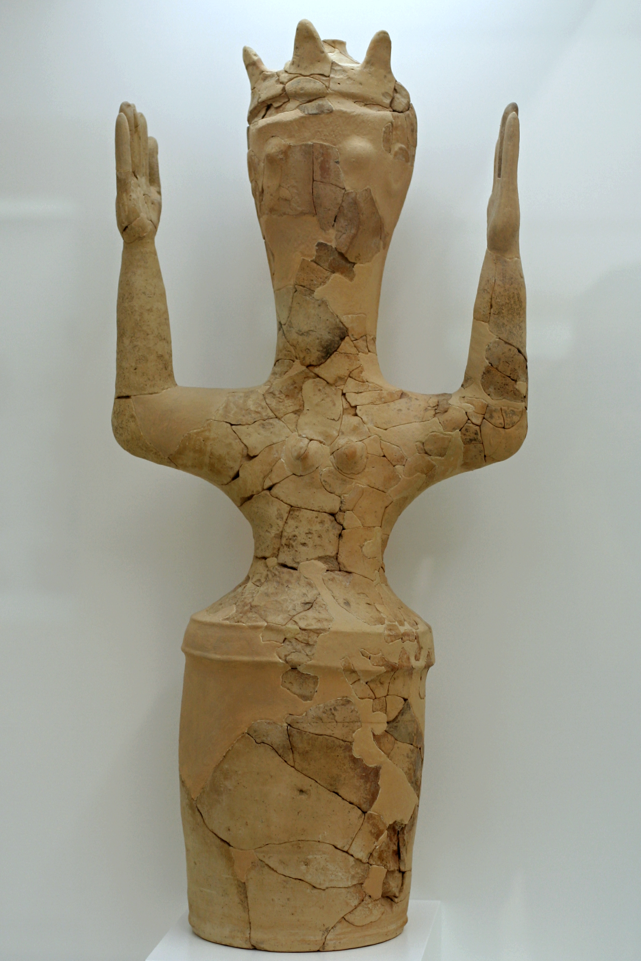 Goddess with arms raised, larger terracotta from the sanctuary of Kefala Vasilikis, near Ierapetra, LM III C, 1200-1100 BC. Archaeological Museum of Agios Nikolaos